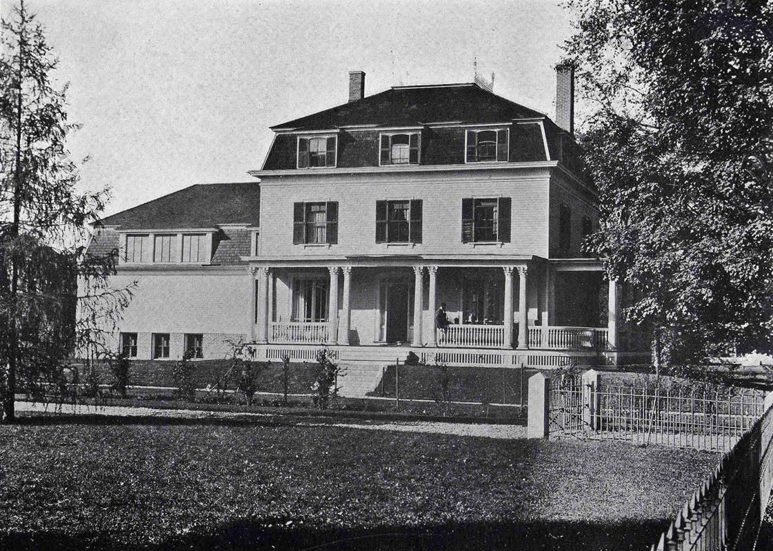 A photo of the physical plant of Kappa Kappa Kappa, a fraternity at Dartmouth College. See Dartmouth College Greek organizations.